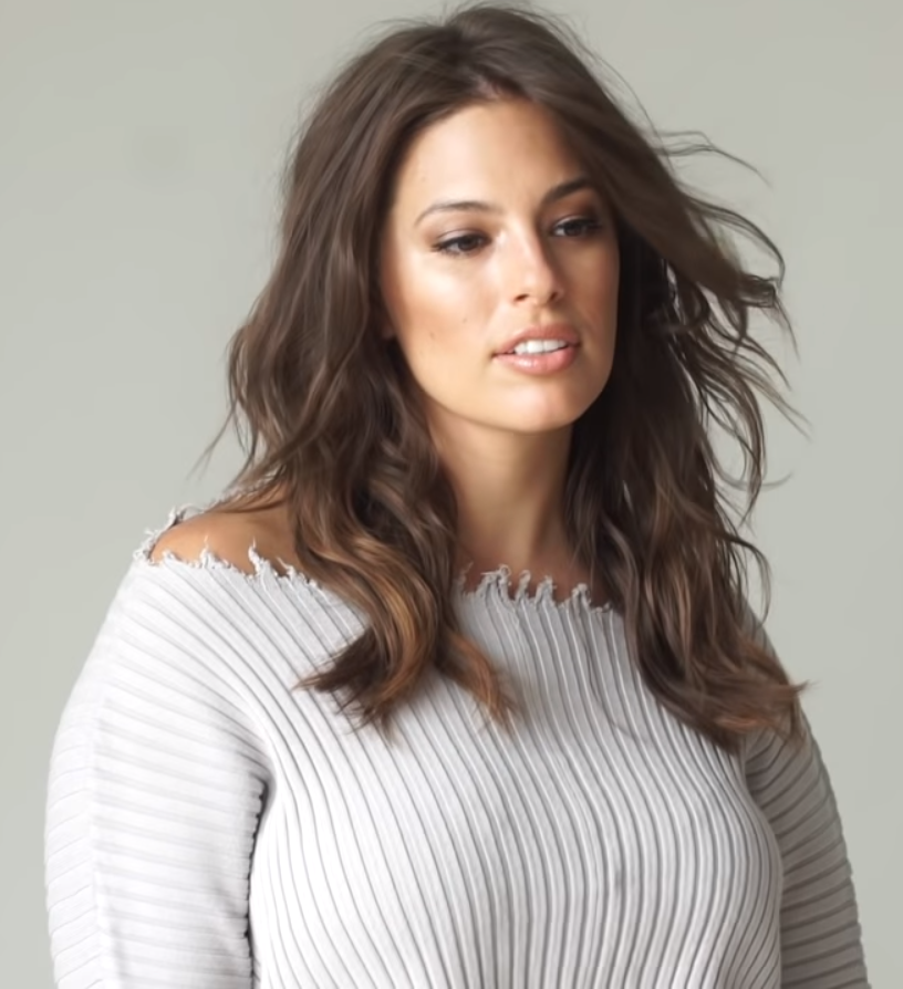 Ashley Graham at her podcast Pretty Big Deal in 2018